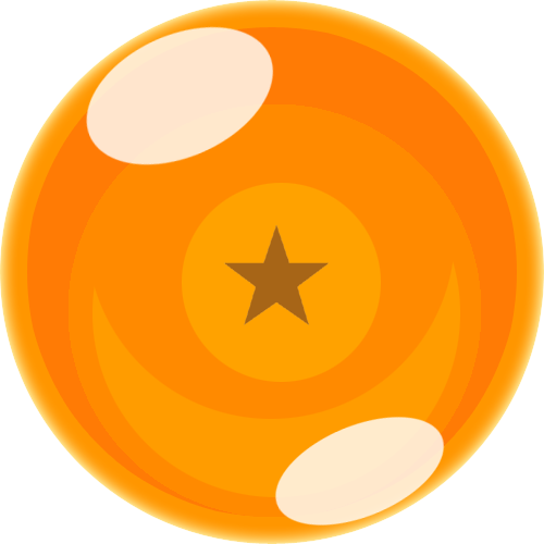 self-made 2D picture